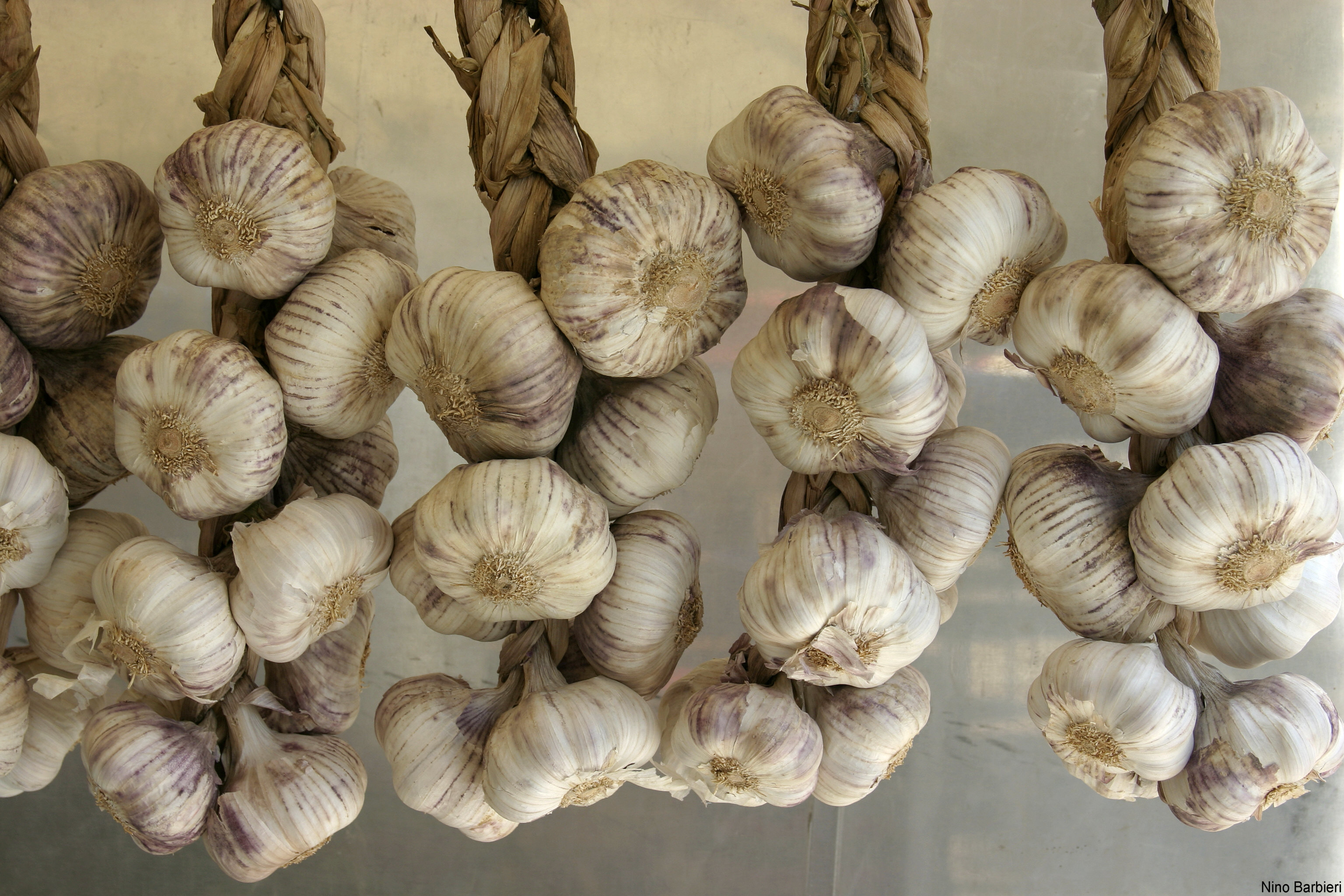 Garlic